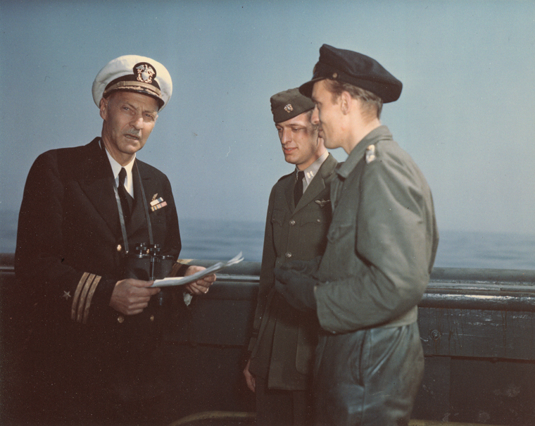 Commander Noorfleet (left) accepts the formal surrender of U-858 from her CO, Kapitänleutnant Thilo Bode (right) aboard ATR-57 - LT Robert H. Braun (center)serves as translator